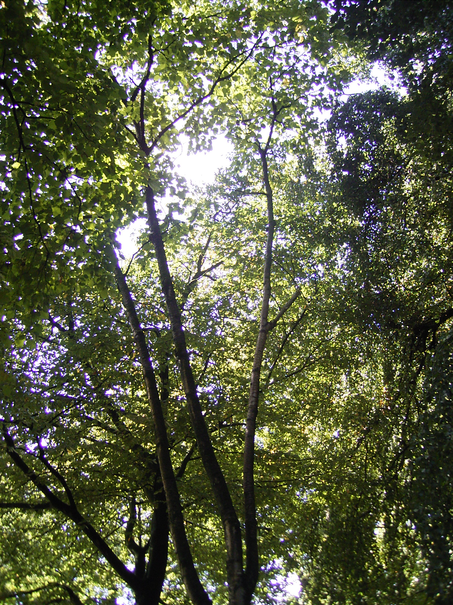 Deze foto toont Betula maximowicziana. Ik nam de foto zaterdag 1 oktober 2005 in het arboretum in Wageningen. This pic shows Betula_maximowicziana. I took the photo on saturday 1 october 2005 in Wageningen.